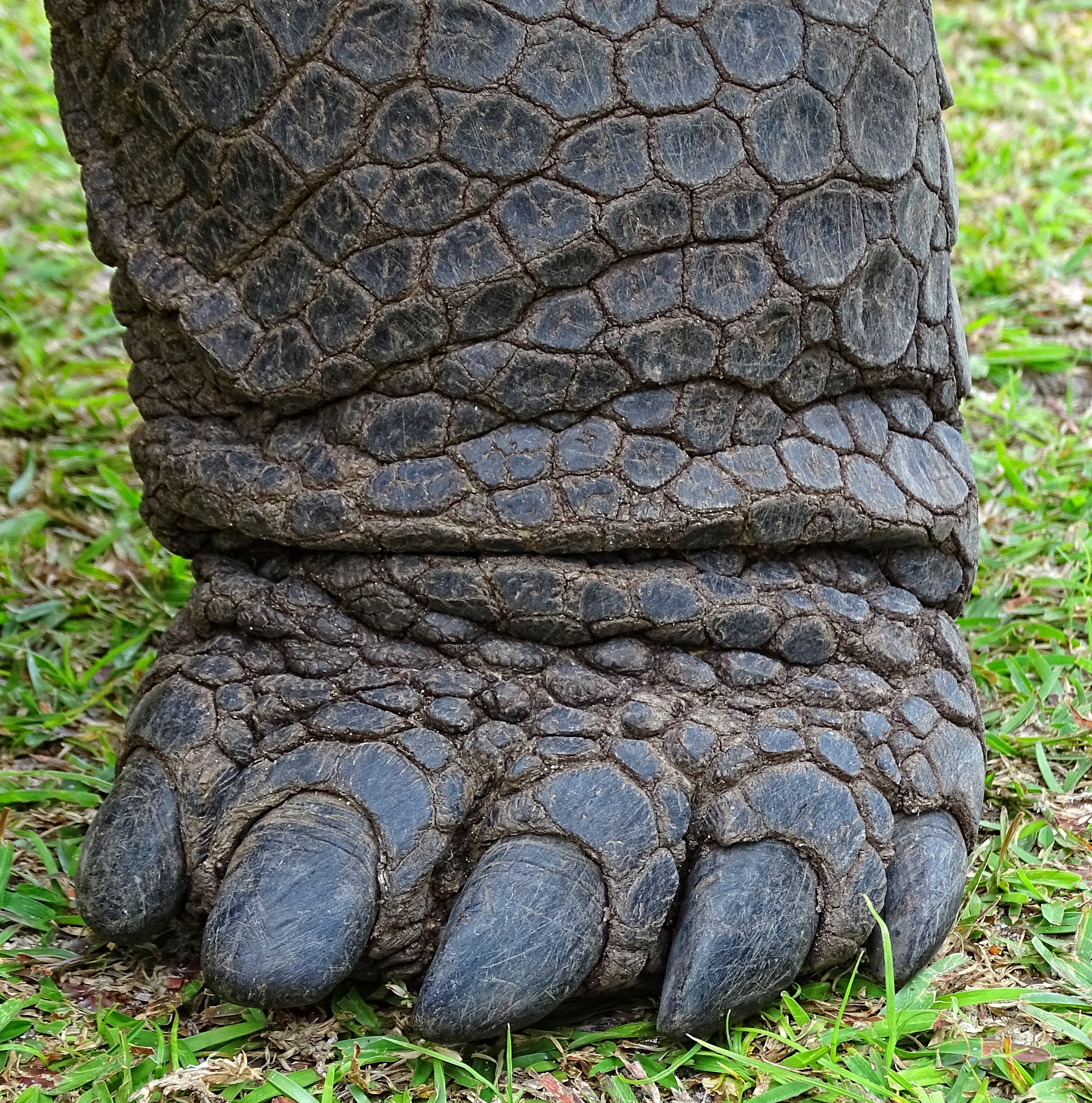 One of the front feet of an adult female Aldabra giant tortoise.